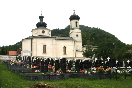 visegrad church (Bosnia and Herzegovina)